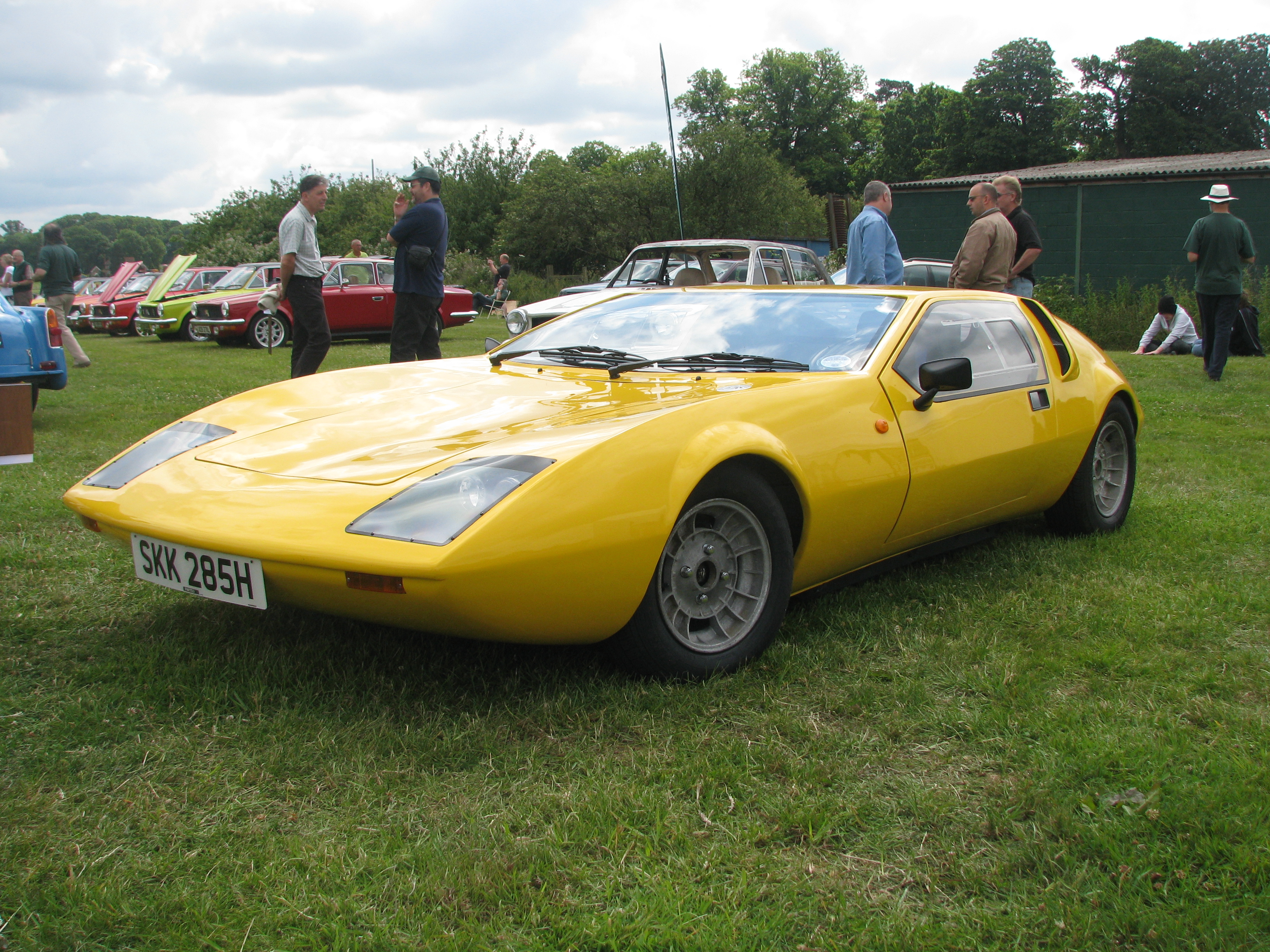 Gilbern T11 prototype